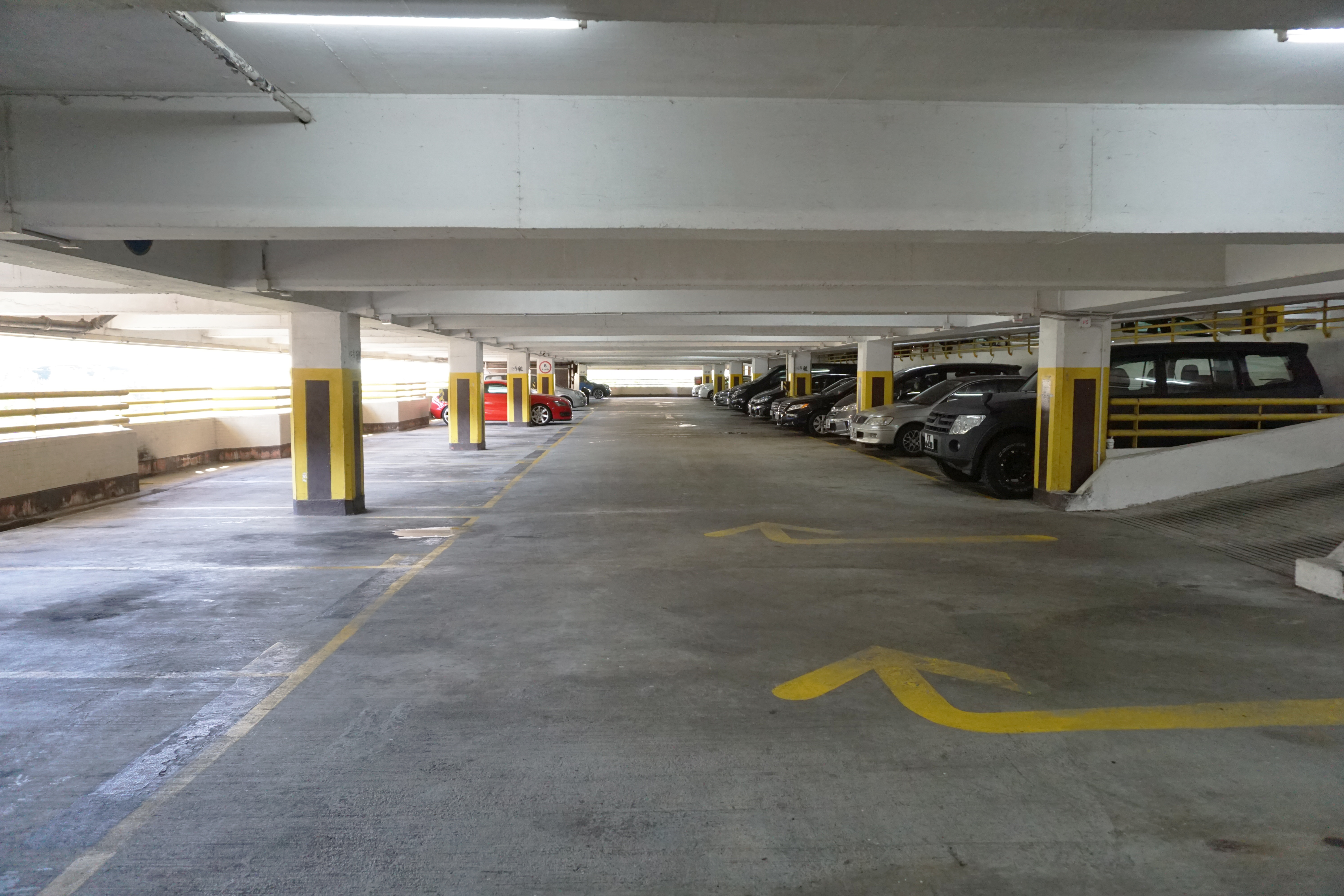 Hin Keng Estate in Tai Wai, Hong Kong.